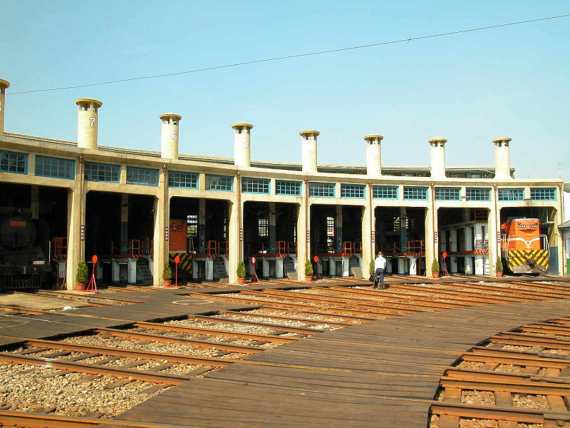 Chunghua fan-shaped garageBân-lâm-gú: Tsiong-huà sìnn-hîng tshia-khòo. 彰化扇形車庫